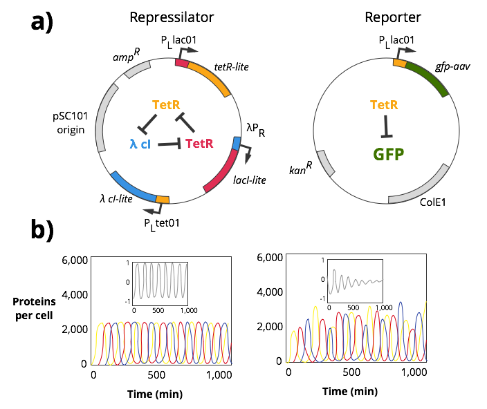 a) Representation of the repressilator that was built by Elowitz and his collaborators. The construction was based in two independent plasmids, one containing the circuit and the other one representing the fluorescent reporter. b) Modeled oscillation (left side) and observed results (right side). Retrieved from Elowitz & Liebler 2000.